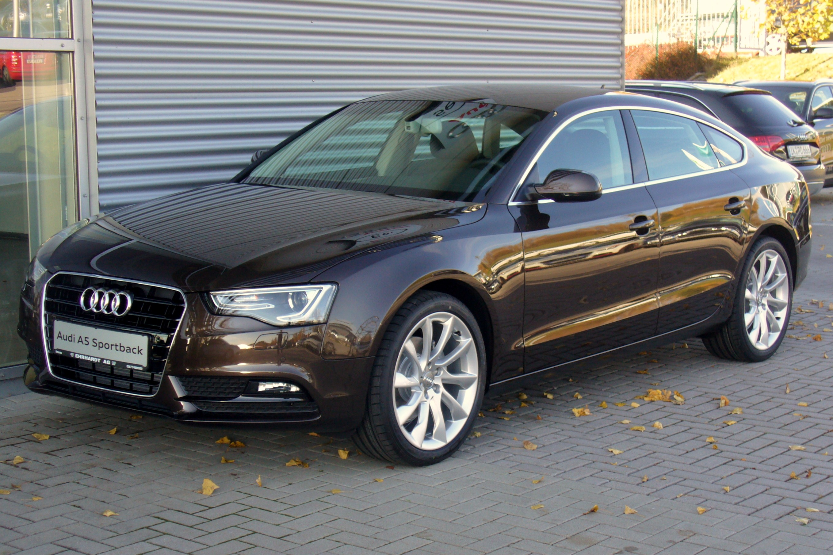 Audi A5 Sportback Facelift